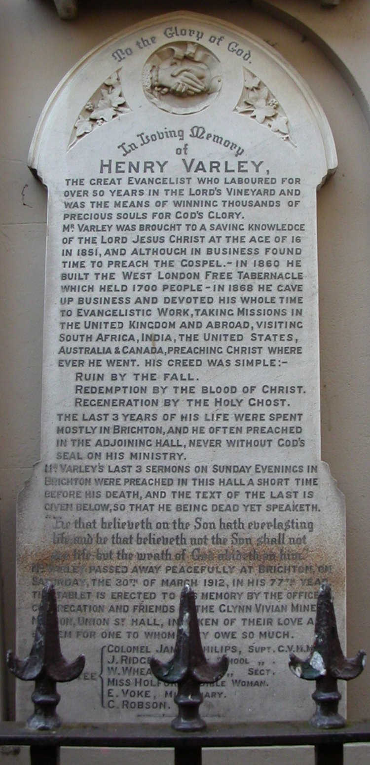 Wall-mounted monument to preacher Henry Varley, on the south side of the former Union Chapel, Brighton, England. It was installed during the period (early in the 20th century) when the chapel was used by the Glynn Vivian Miners' Mission. The building is now a pub called the "Font & Firkin".